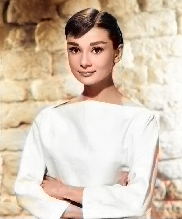 A colorized picture of Audrey Hepburn